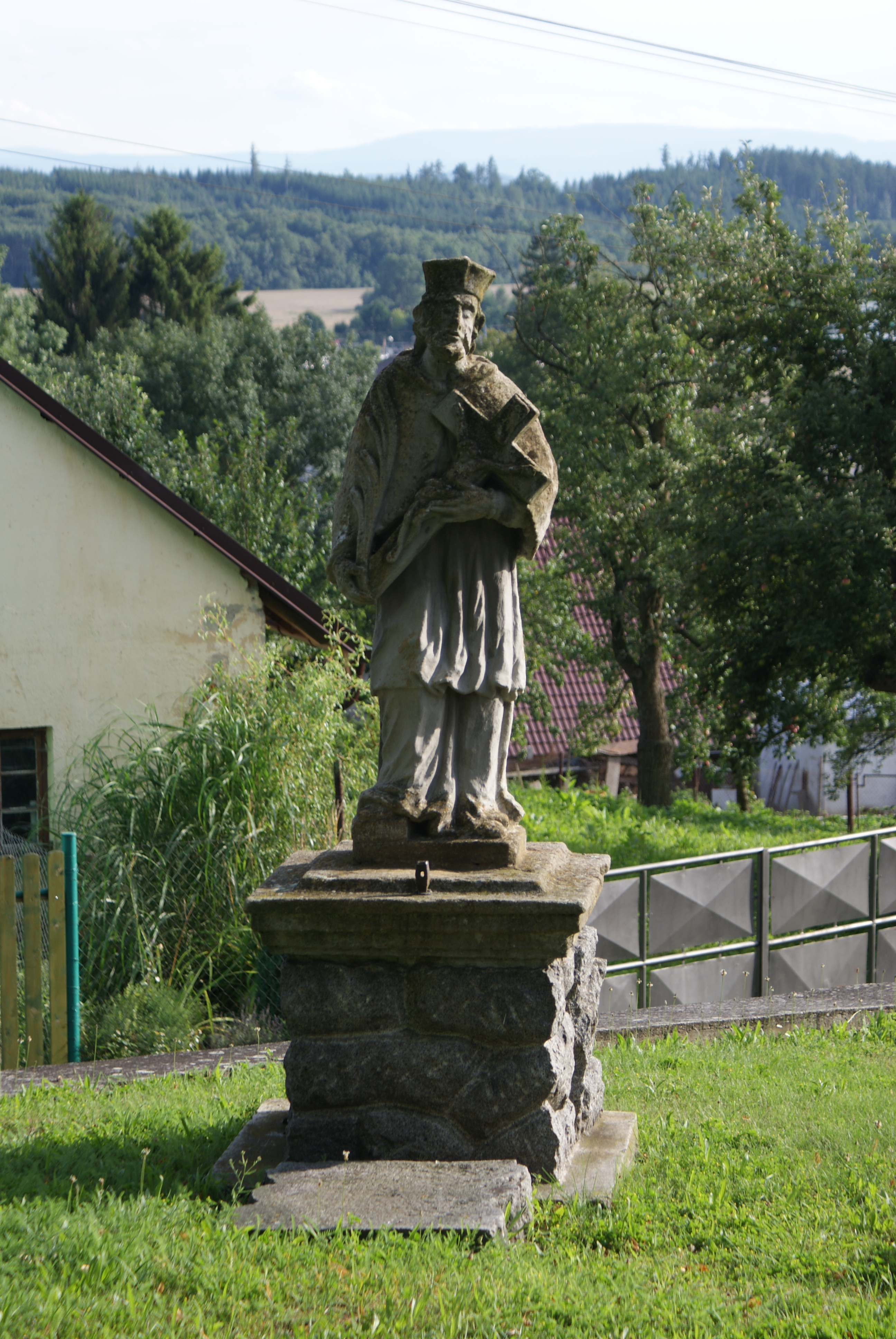 Předslav, a village in Klatovy District, Czech Republic, a John of Nepomuk statue by the church.